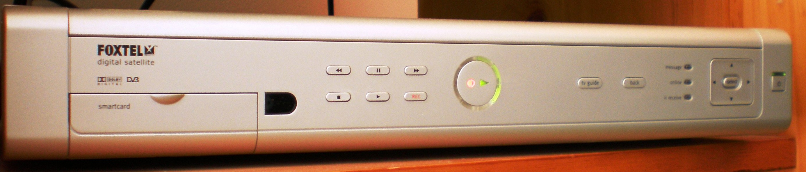 Foxtel iQ satellite set top unit. Photo taken in October en:2006.